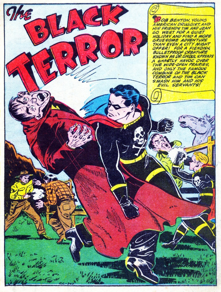 The Black Terror #12, Page 3 November, 1945